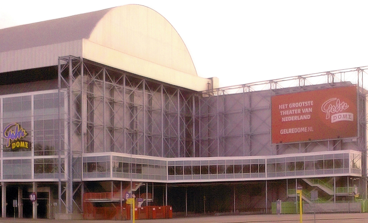 Gelredome stadium, Arnhem, the Netherlands